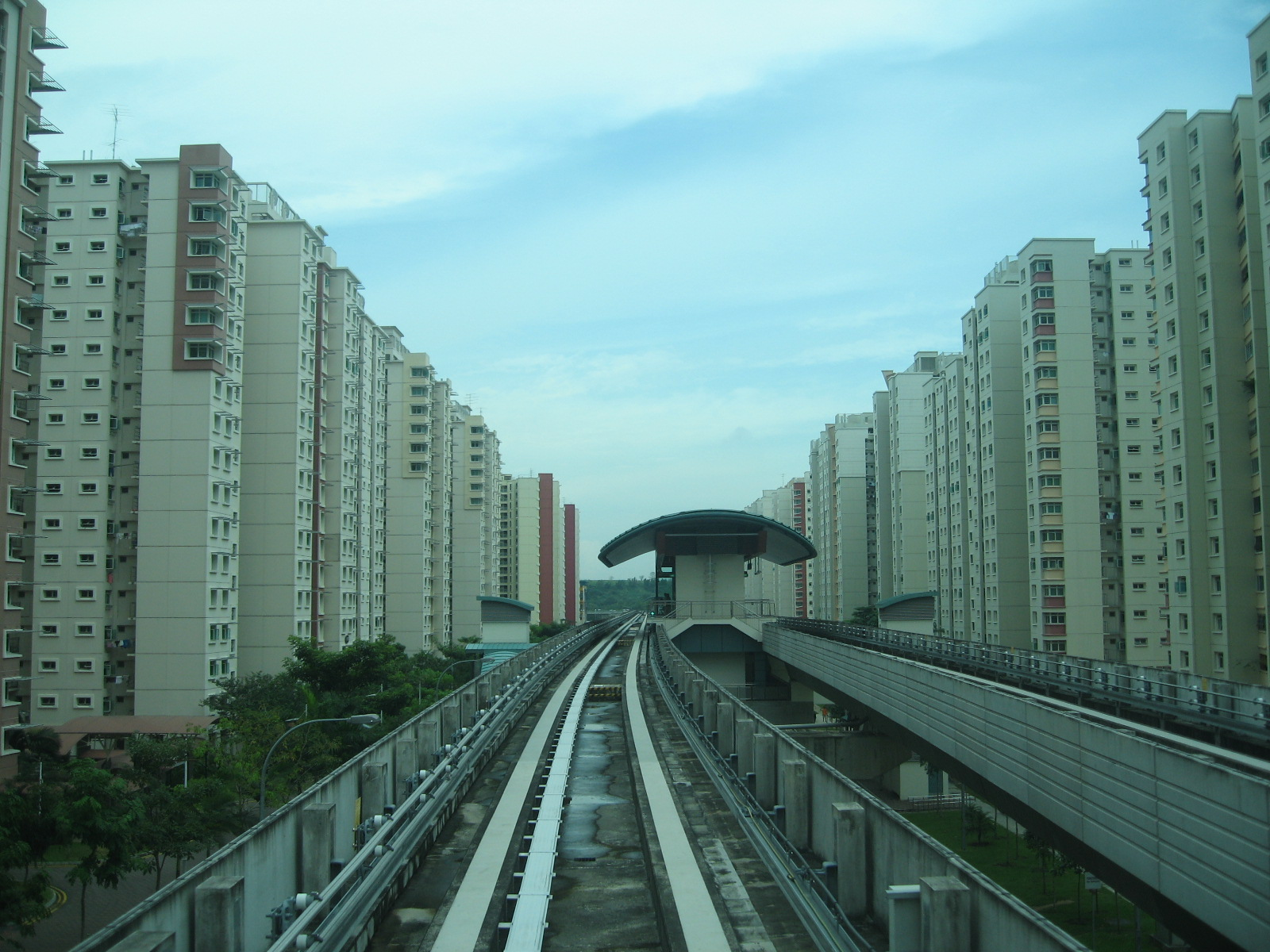 Punggol LRT Line.